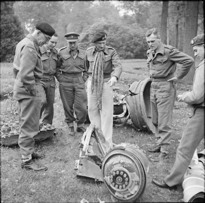 The British Army in North-west Europe 1944-45 Field Marshal Montgomery examines the remains of a German V2 rocket near the HQ of Major General Percy Hobart, GOC 79th Armoured Division (left), 30 October 1944.